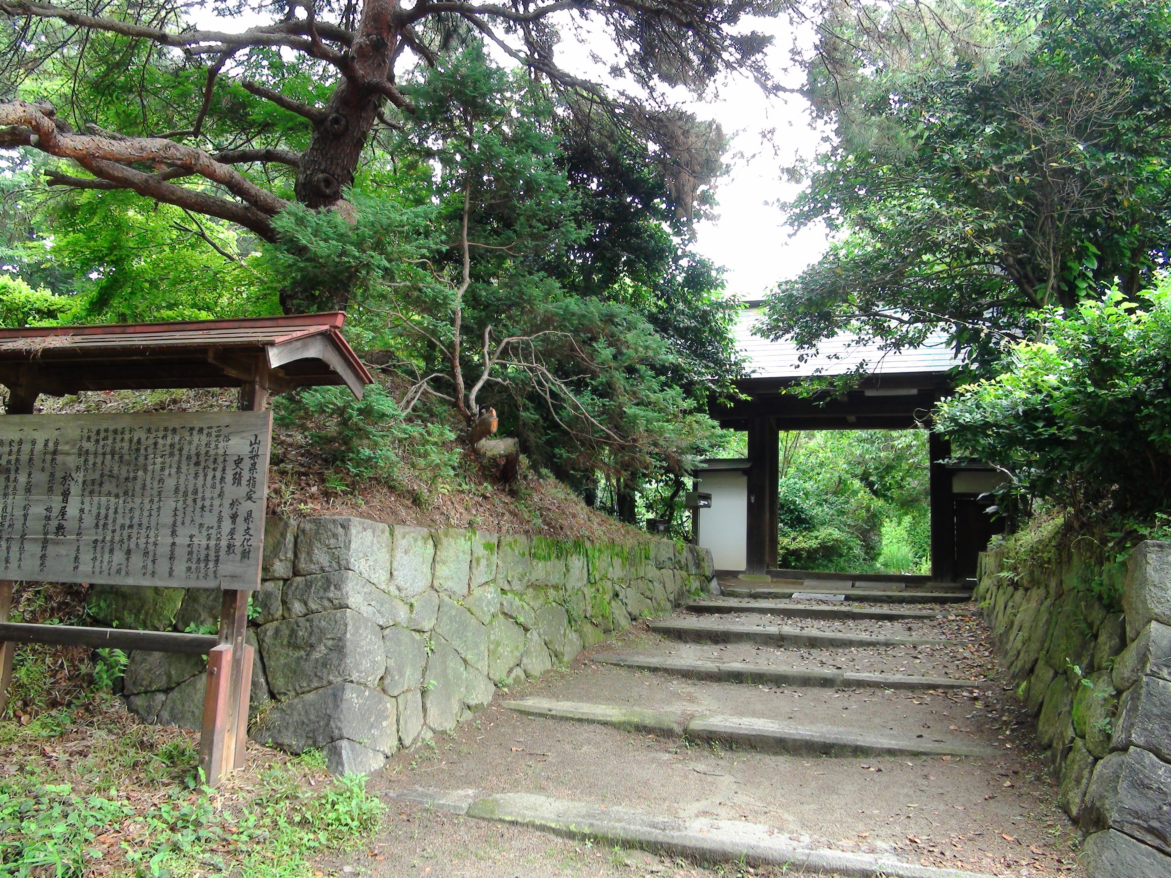 Remains of an ancient structure of Ozoyashiki-house